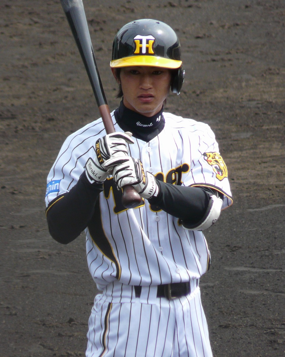 Hiroki Uemoto, infielder of the Hanshin Tigers, at Hanshin Naruohama Baseball Ground